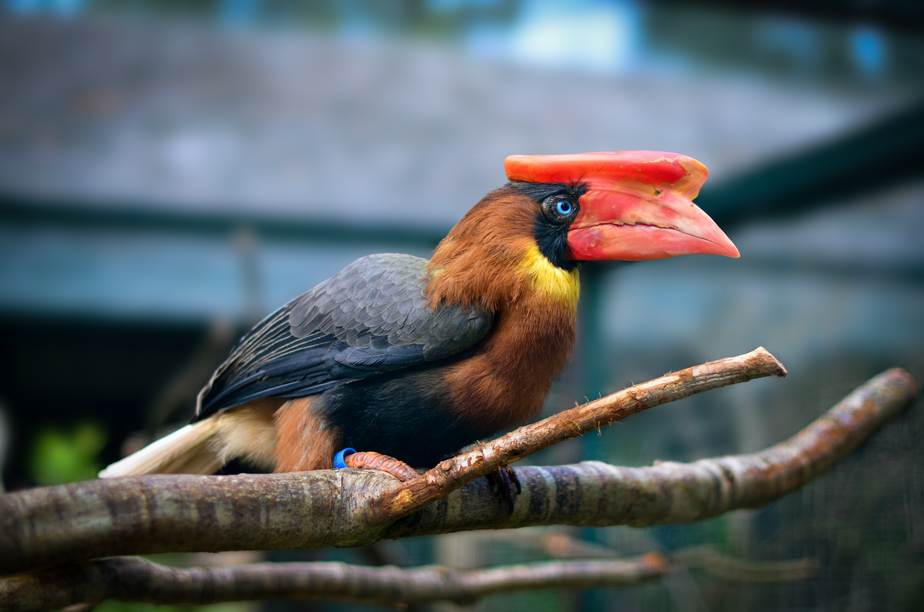 Rufous Hornbill (Buceros hydrocorax) at Weltvogelpark Walsrode (Walsrode Bird Park, Germany)